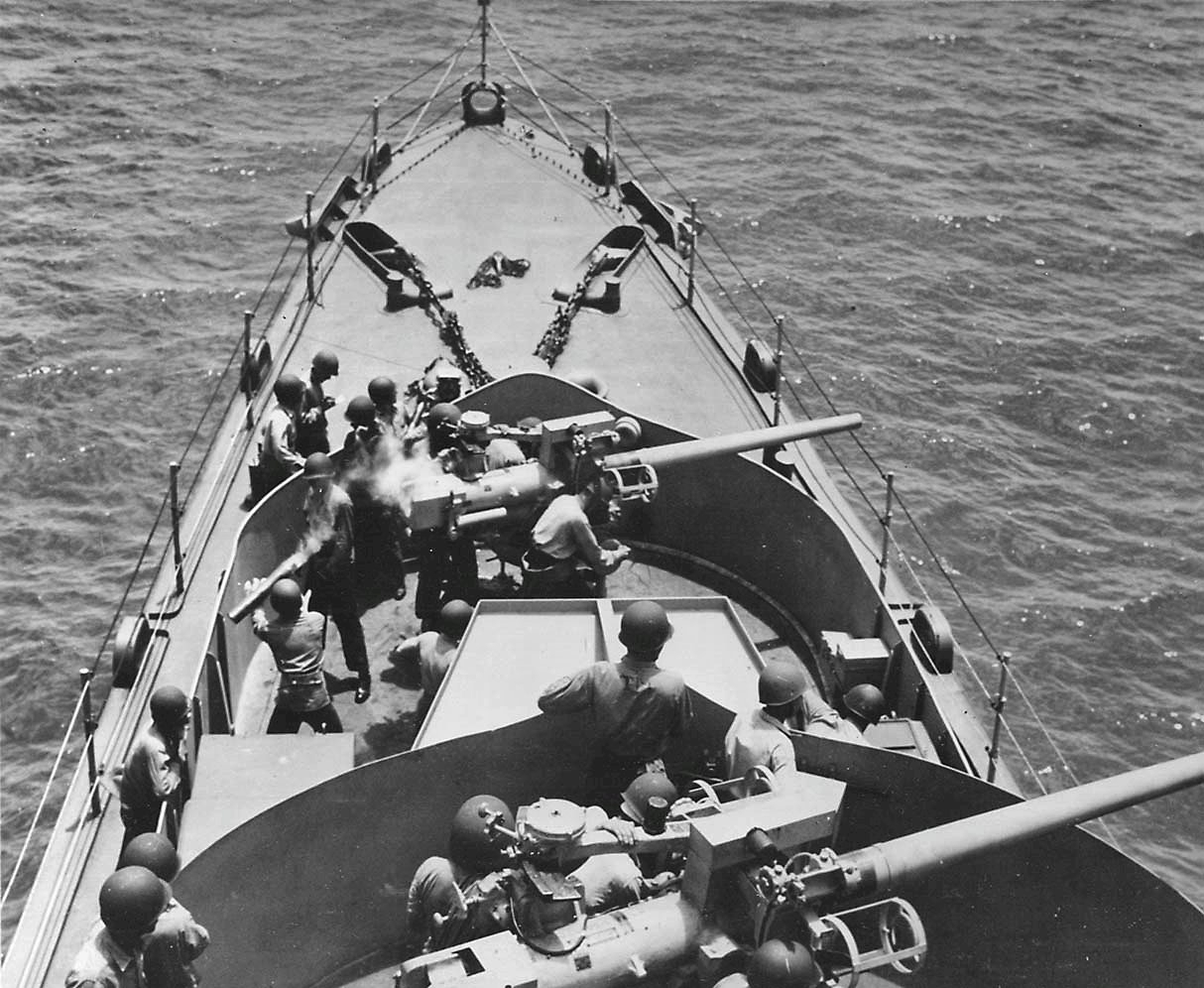 A sailor wearing asbestos gloves catches a shell casing moments after the forward 76mm (3")/50 cal gun fired during drill aboard the U.S. Navy destroyer escort USS Jacob Jones (DE-130), in January 1944.